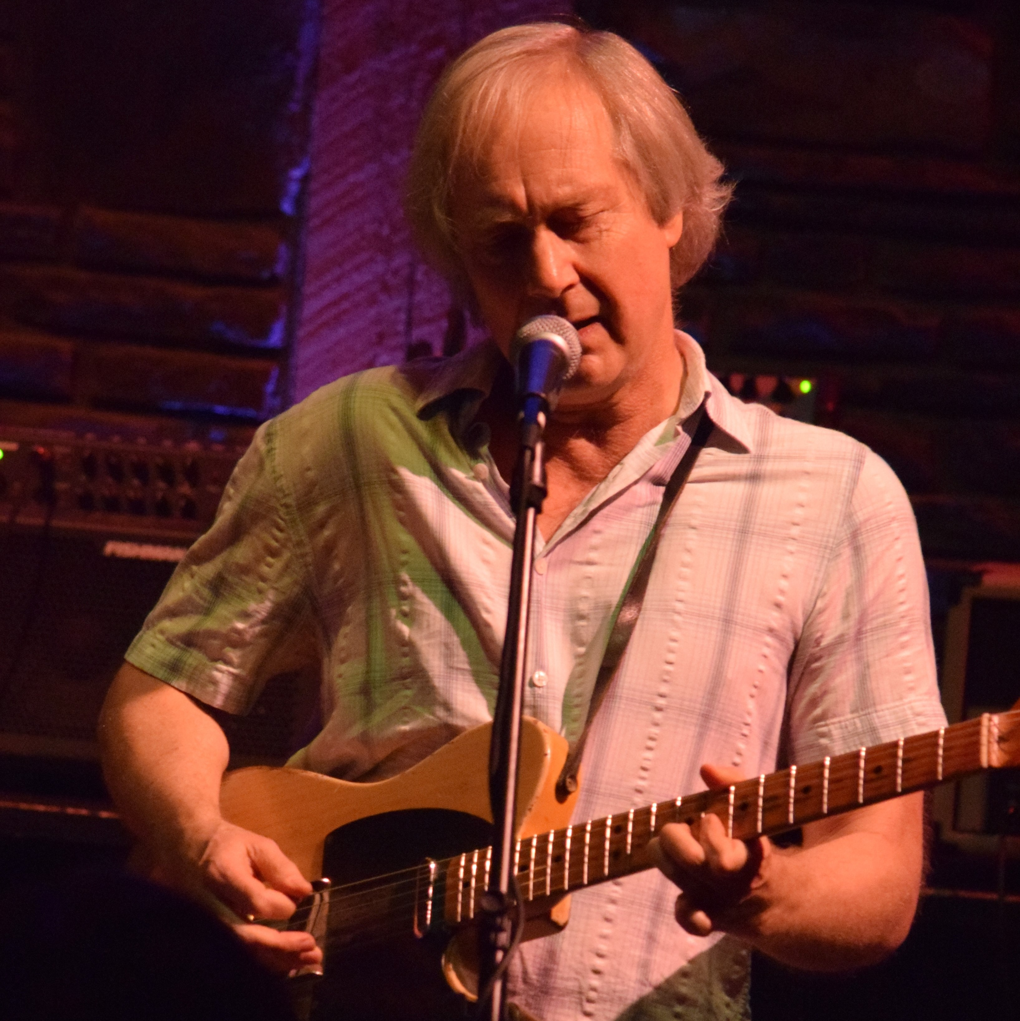 A photograph of musician Jim Weider, taken at Levon Helm Studios on May 9, 2015